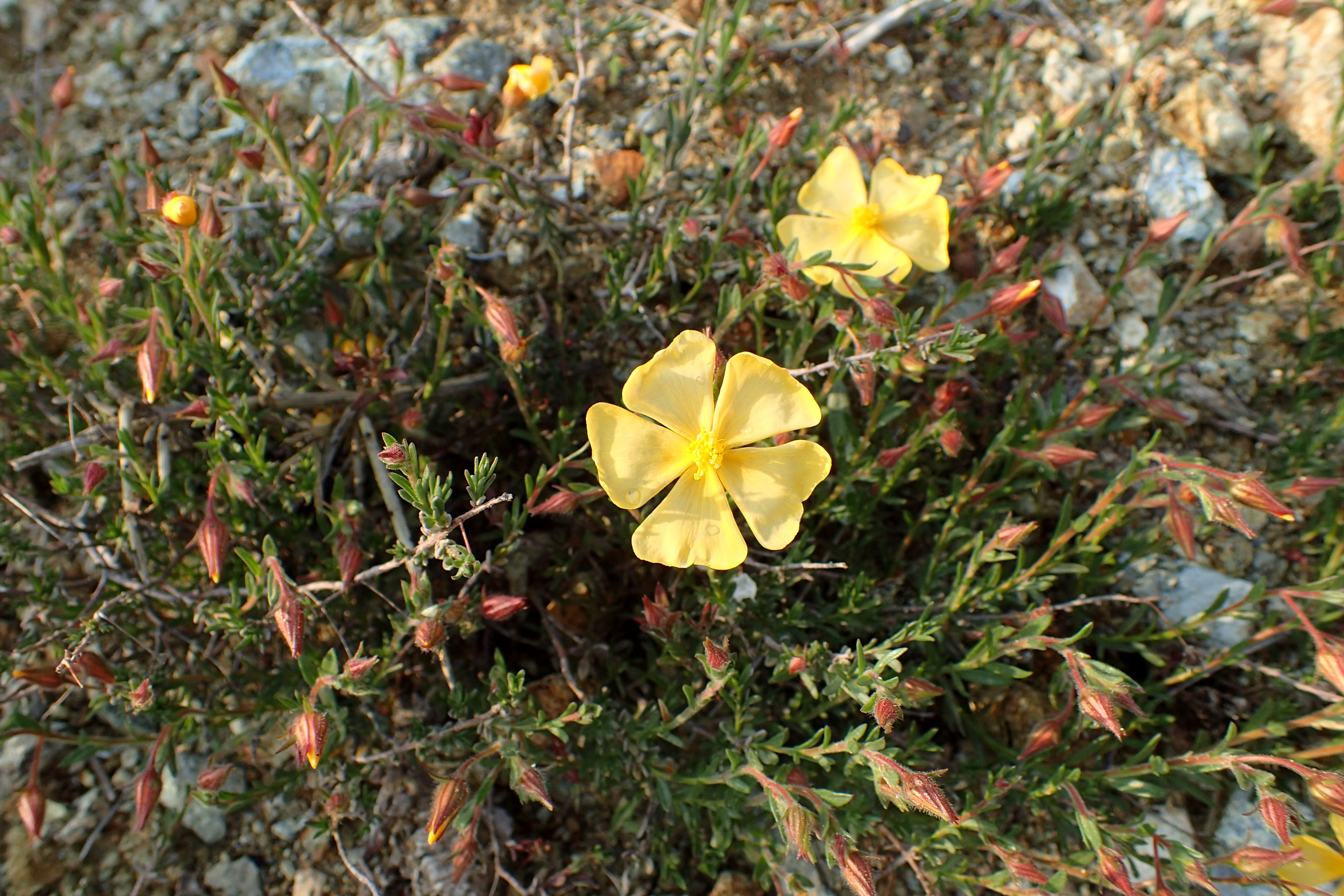 Fumana arabica N from Pareklisia, Cyprus